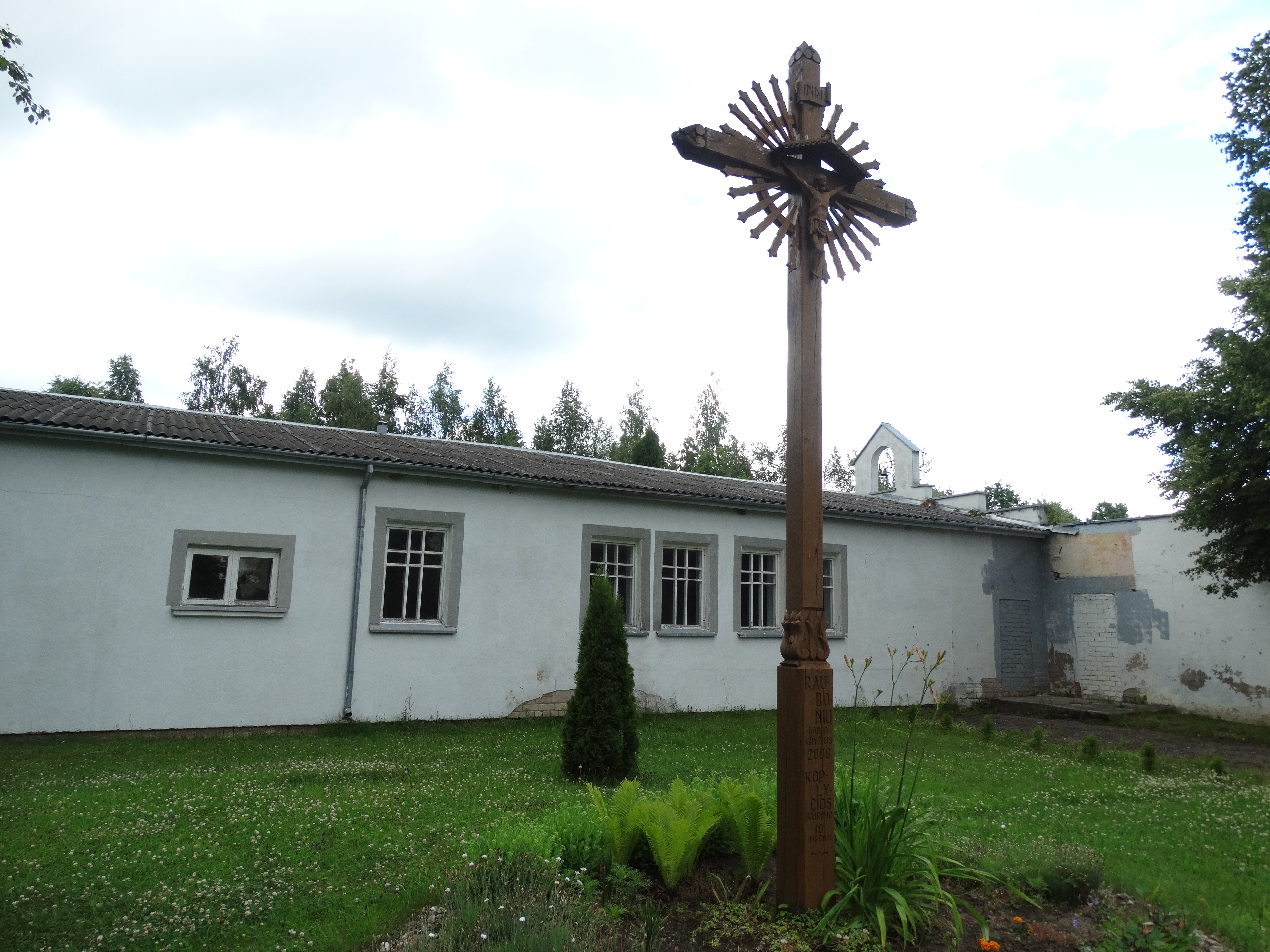 Chapel, Raubonys, Pasvalys District, Lithuania